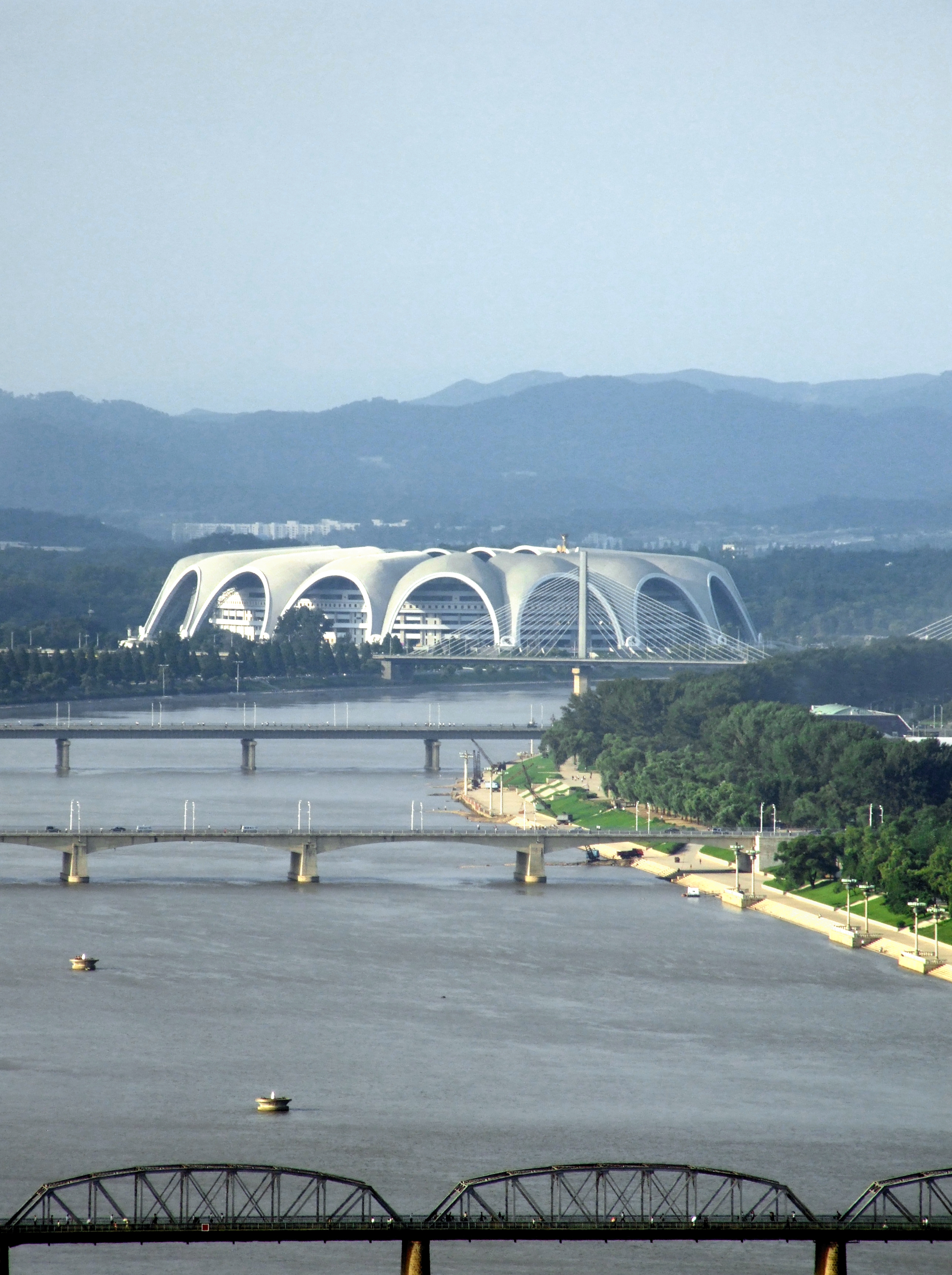 View from Yanggakdo International Hotel: Rŭngrado May First Stadium